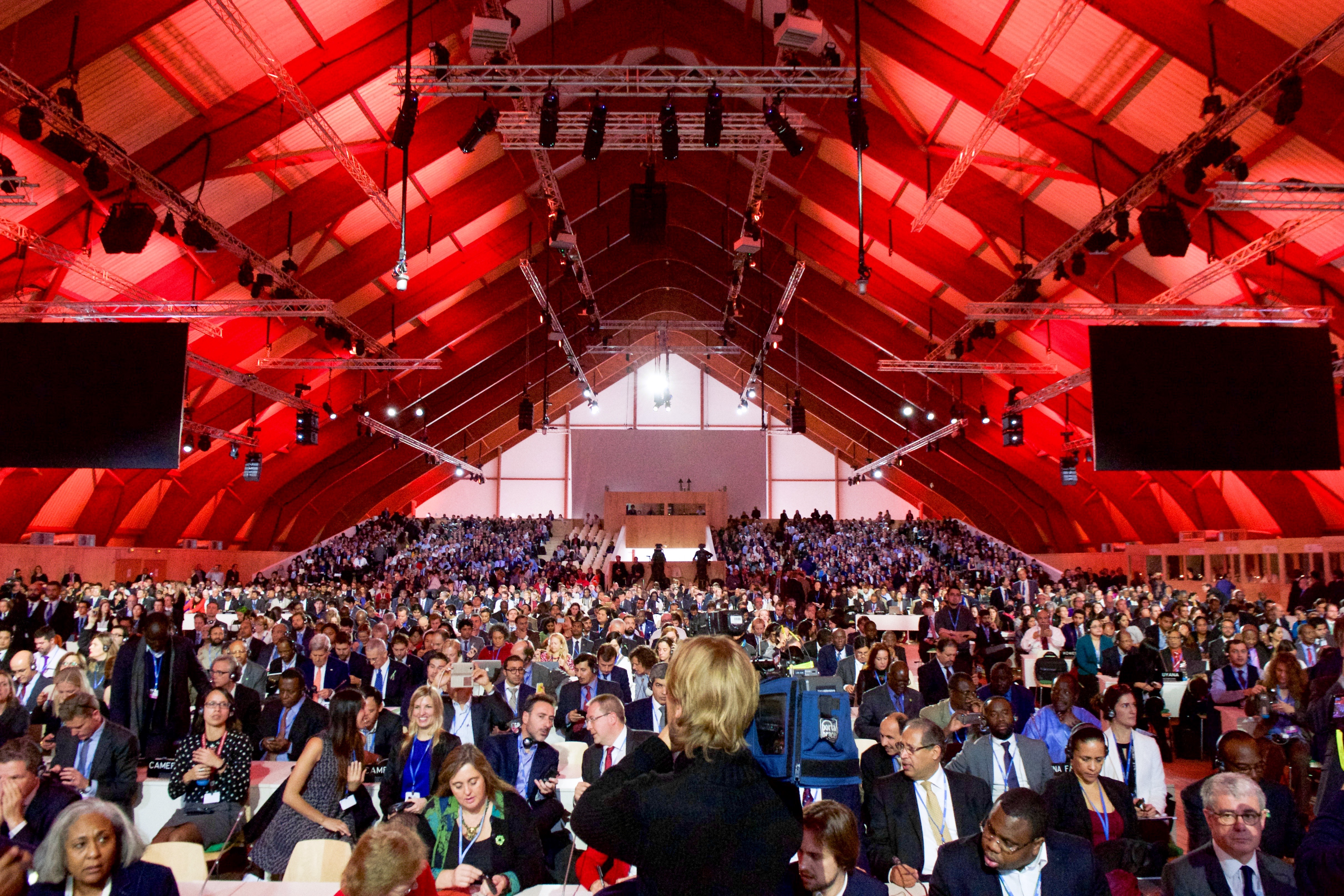 Delegates to the COP21 climate change conference assemble in the Plenary Hall at LeBourget Airport in Paris, France, on December 12, 2015, before speeches by French President Francois Hollande, French Foreign Minister Laurent Fabius, President of the COP21 climate change conference, and United Nations Secretary-General Ban Ki-moon. [State Department photo/ Public Domain]